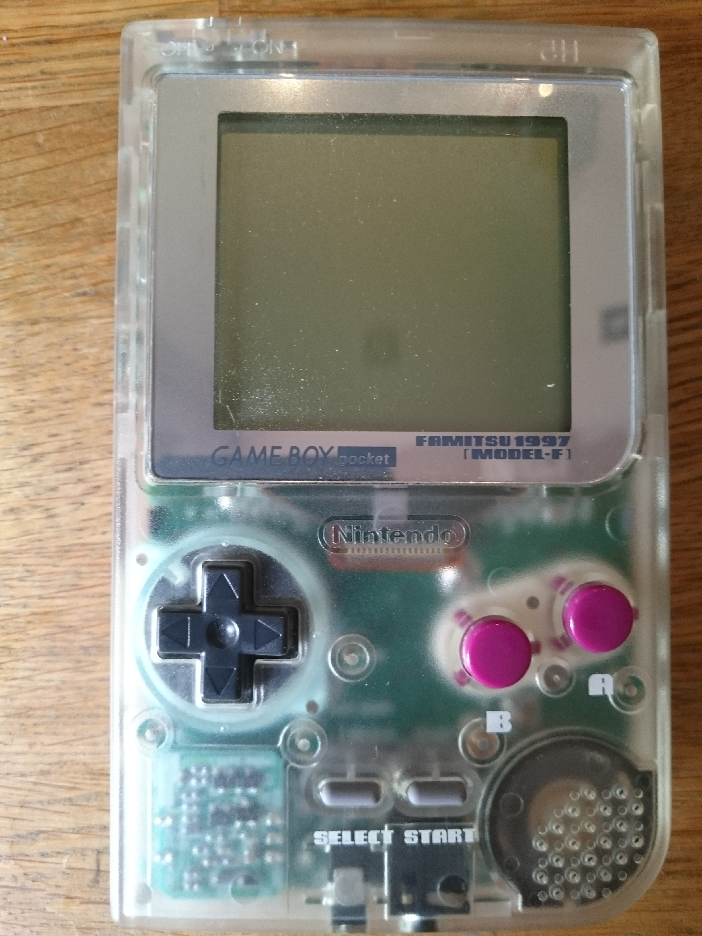 Game Boy Pocket Model F Famitsu Edition 1997 With a mirror like bezel, with the inscription "GAME BOY pocket Famitsu 1997 [MODEL-F]